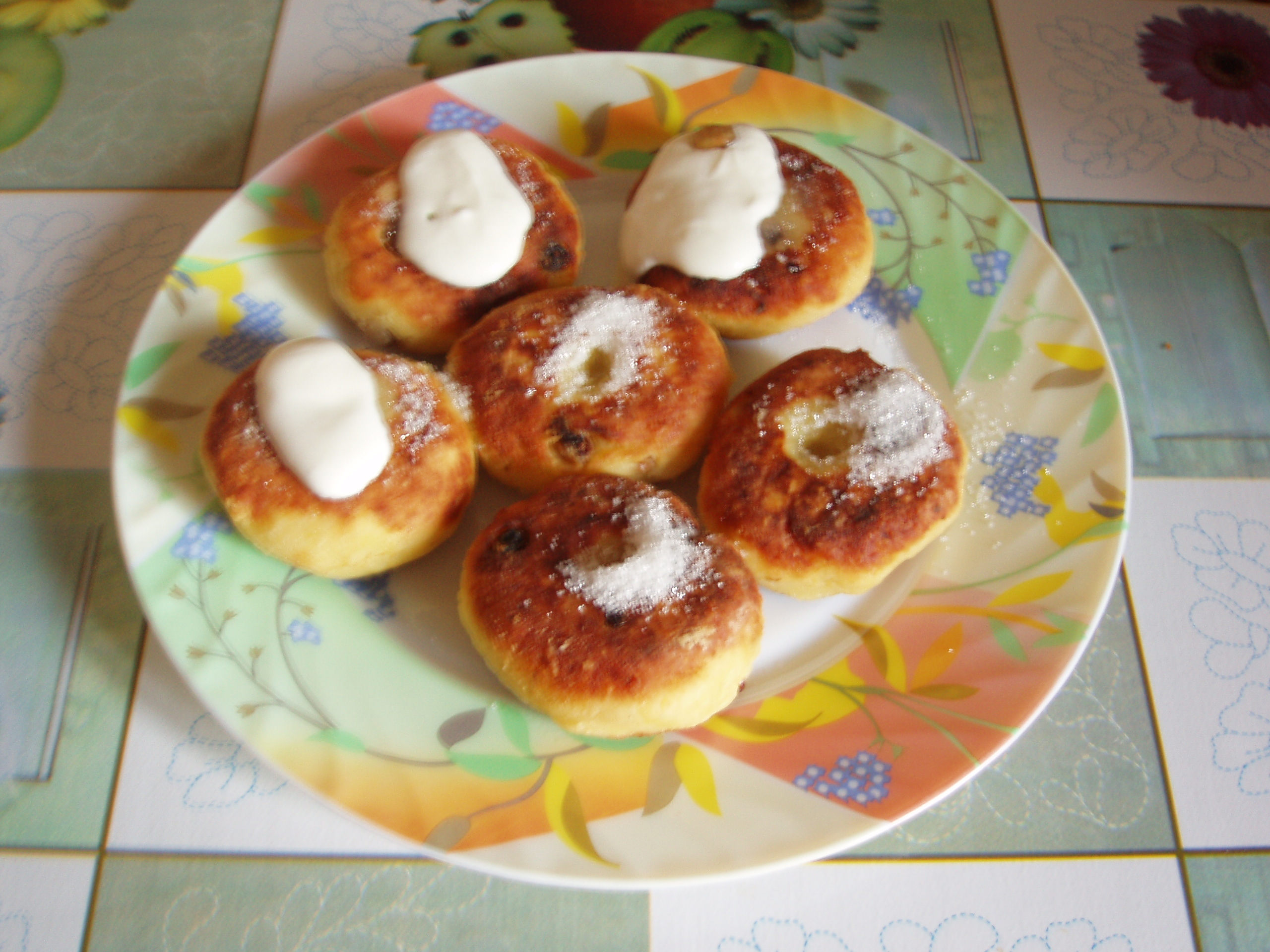 Syrniki. Syrniki, fried quark cheese pancakes, garnished with sour cream, jam, honey, or apple sauce.